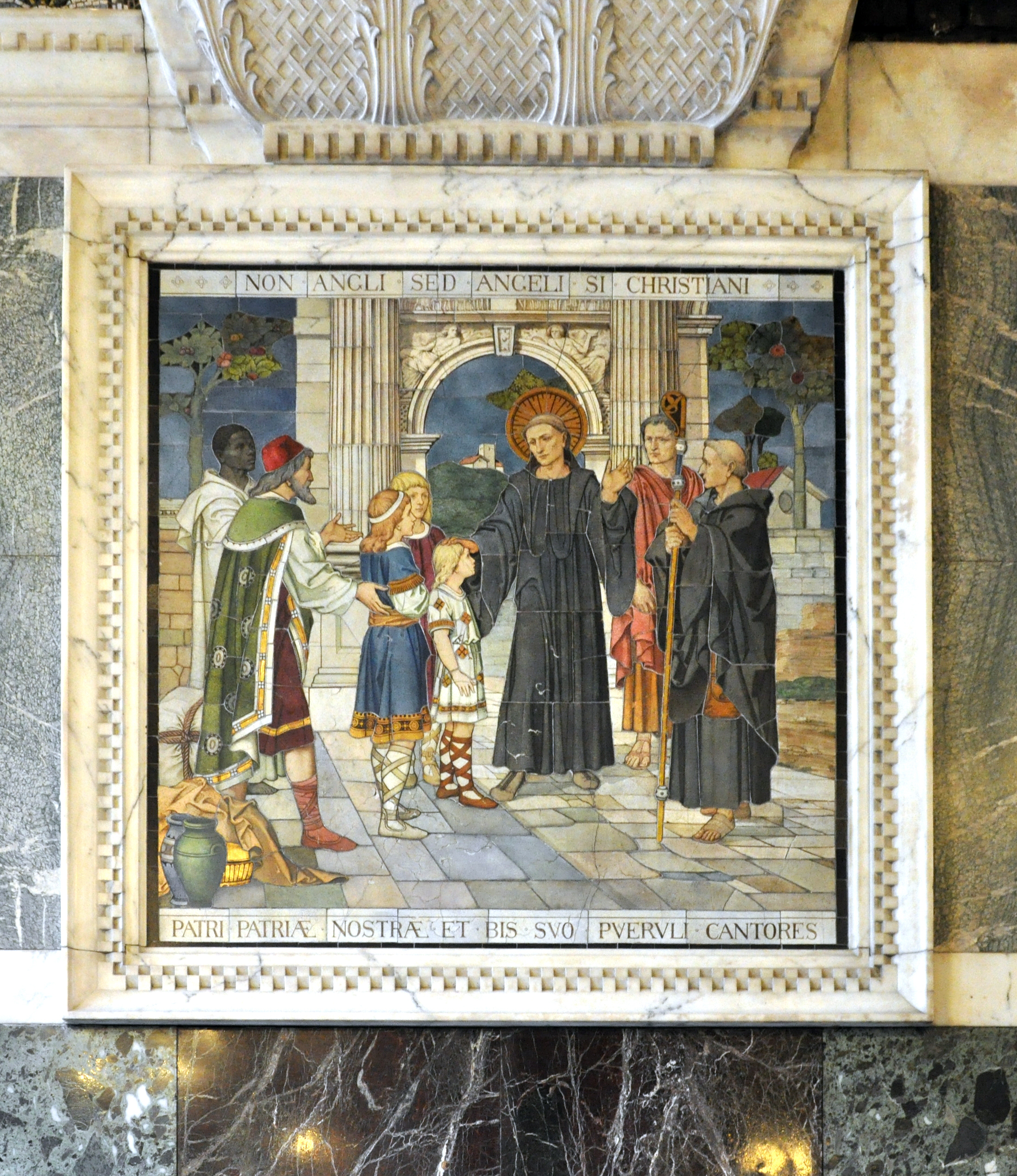 Glass inlay mosaic — Saints Augustine and Gregory, "Non Angli sed Angeli si Christiani..." At Chapel of St Gregory and St Augustine, Westminster Cathedral — London.